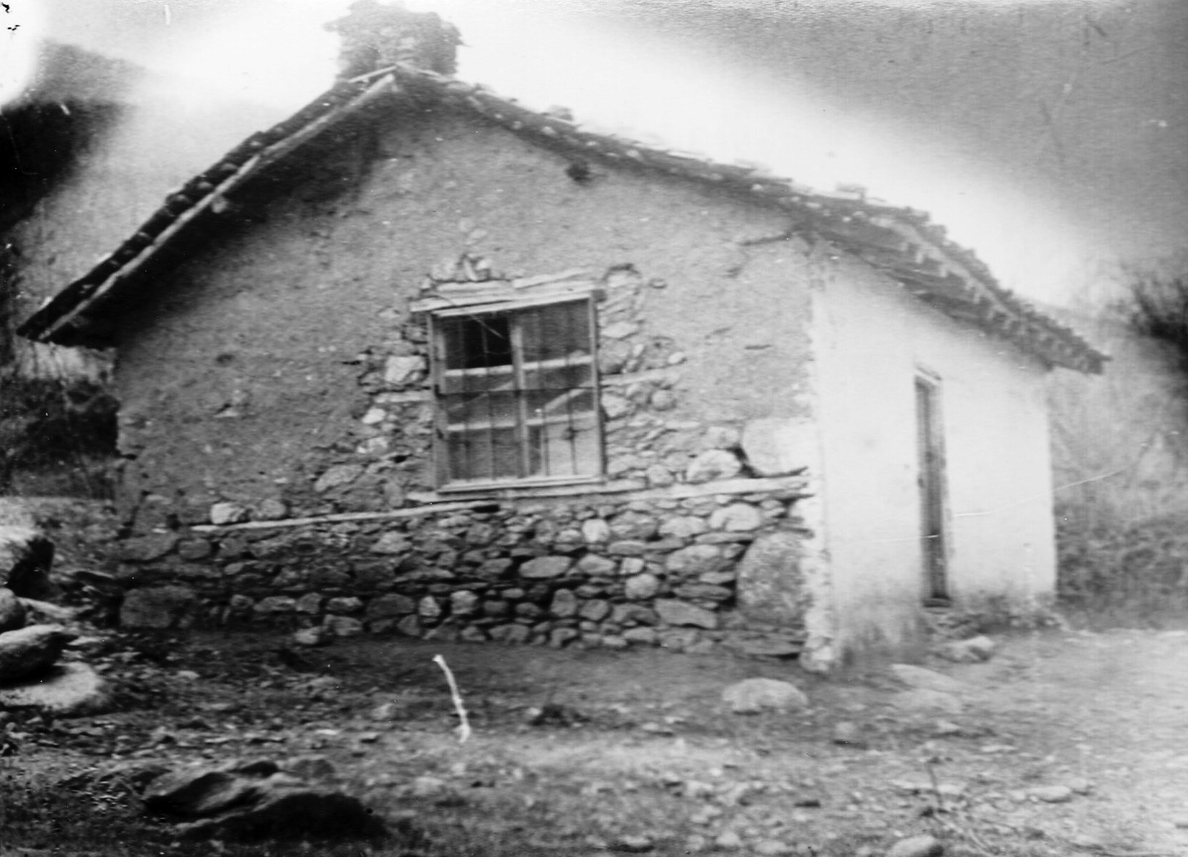 The old school building in the village Staro Konjarevo, near Stumica This media file is produced by Wikipedian in Residence in Category:Wikipedian in Residence at DARM in 2016.